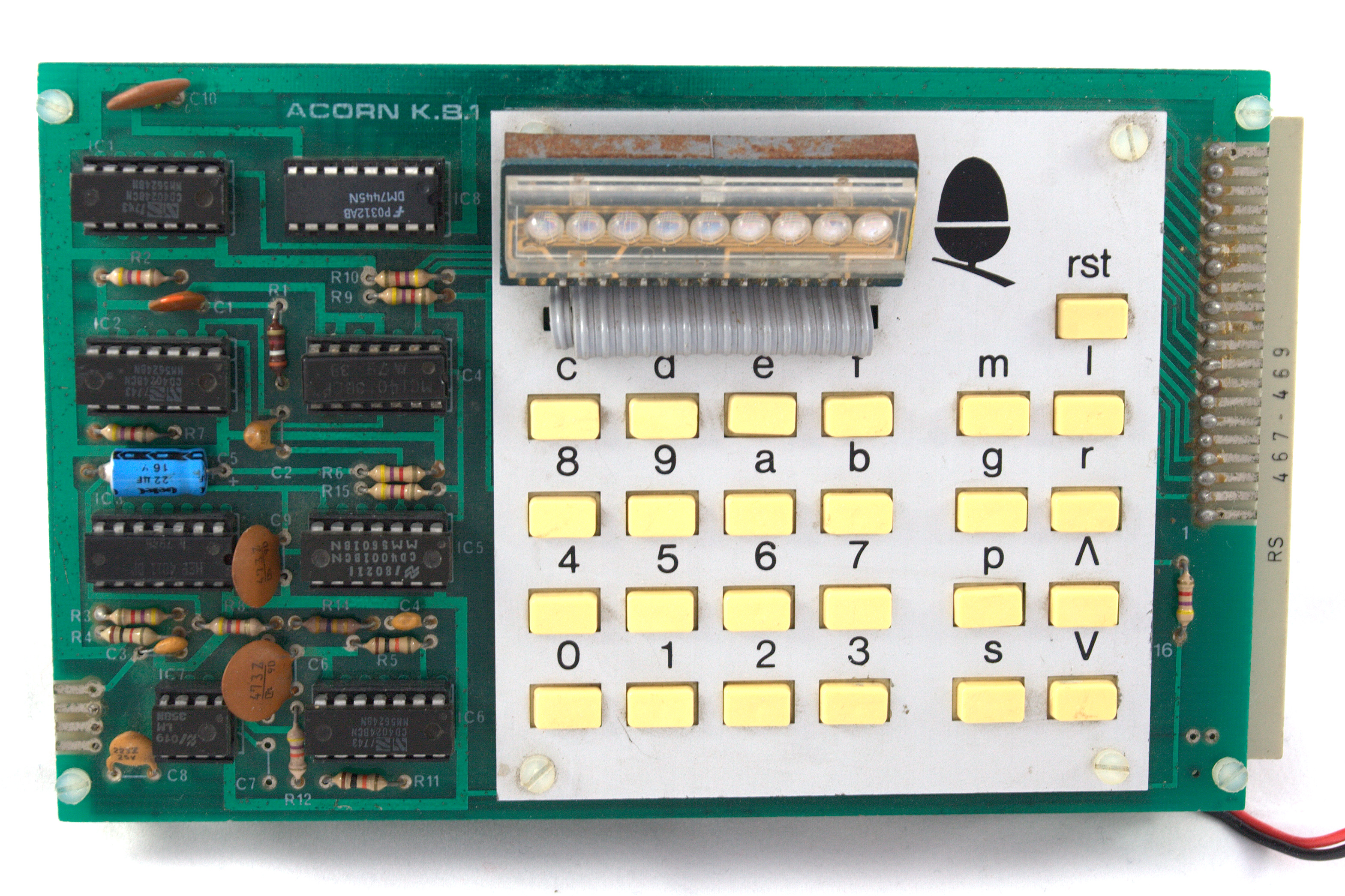 The front board of an Acorn System 1